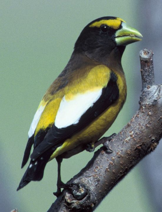 Evening Grosbeak at Klamath Falls, California